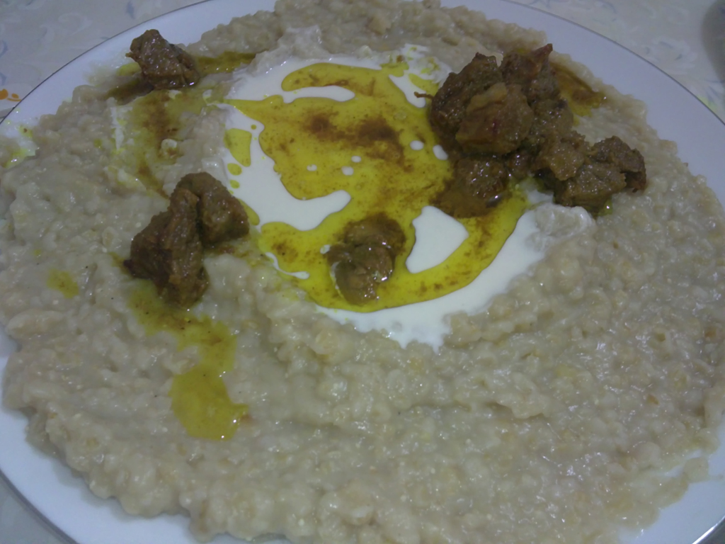 Kachi-ghaza آش کاچی